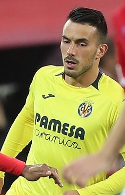 Spartak Moscow VS. Villarreal CF 4 October 2018